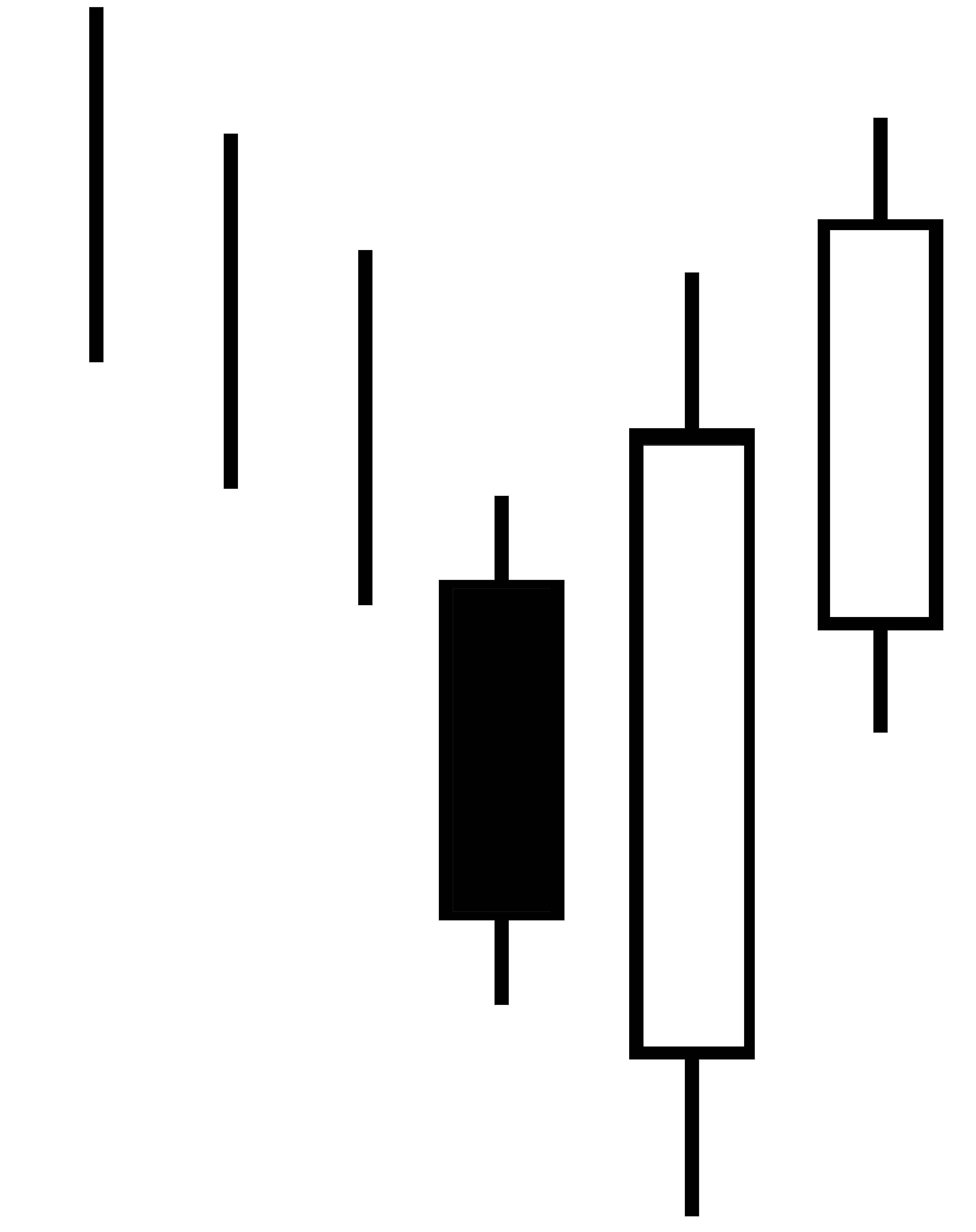 Bullish Three outside up